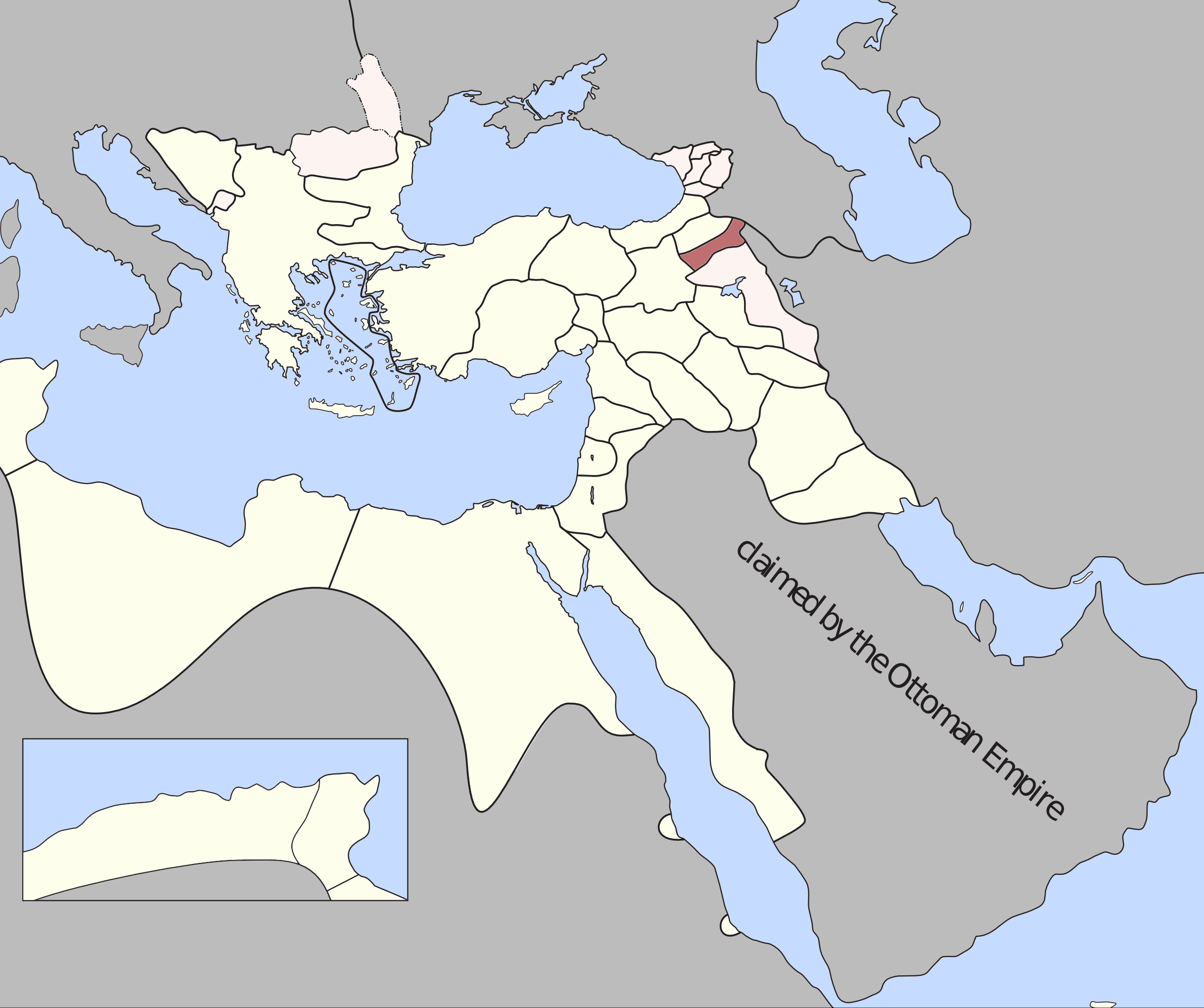 XY Eyalet, Ottoman Empire (1795). Source: A Brief History of the Late Ottoman Empire at Google Books By M. Sukru Hanioglu, Figure 1